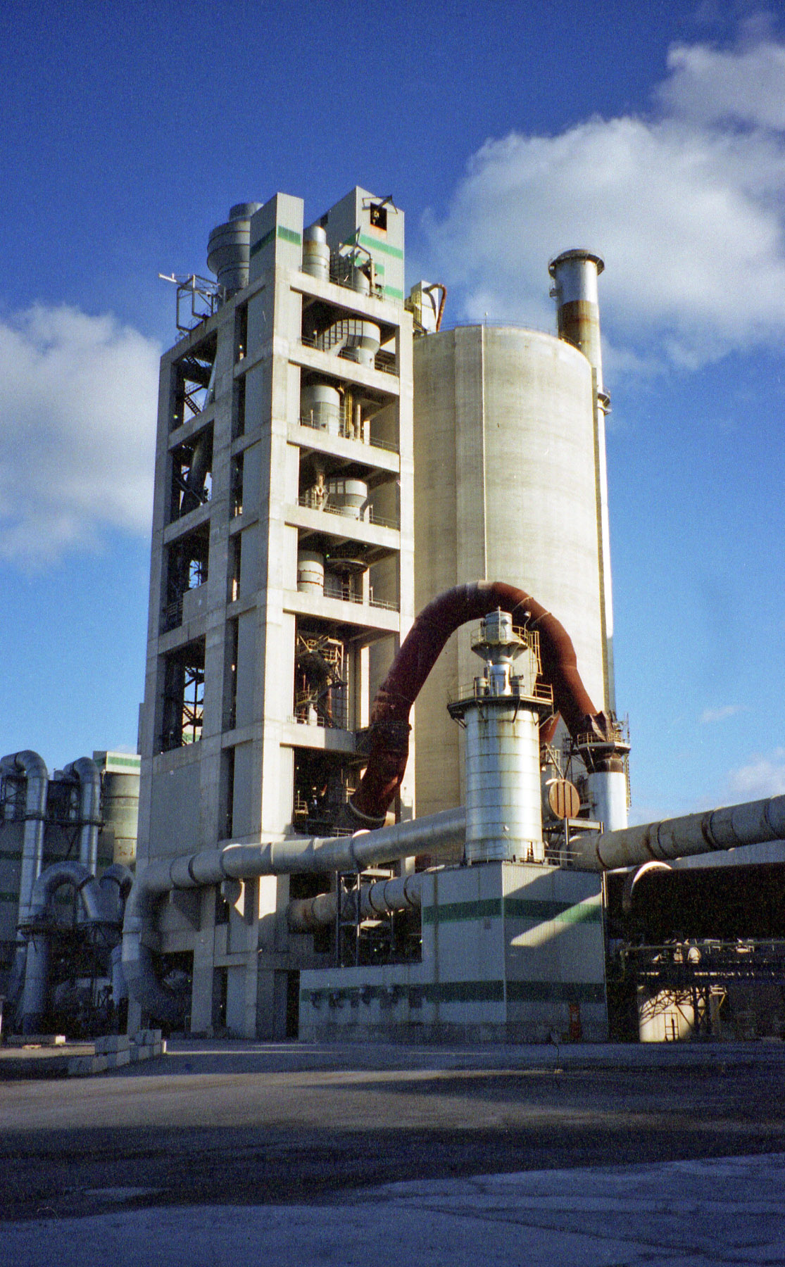 Cement Plant: FLS twin string 5-stage precalciner tower. Rawmix silo to the right with exhaust stack behind. Kiln and TA Duct bottom right.